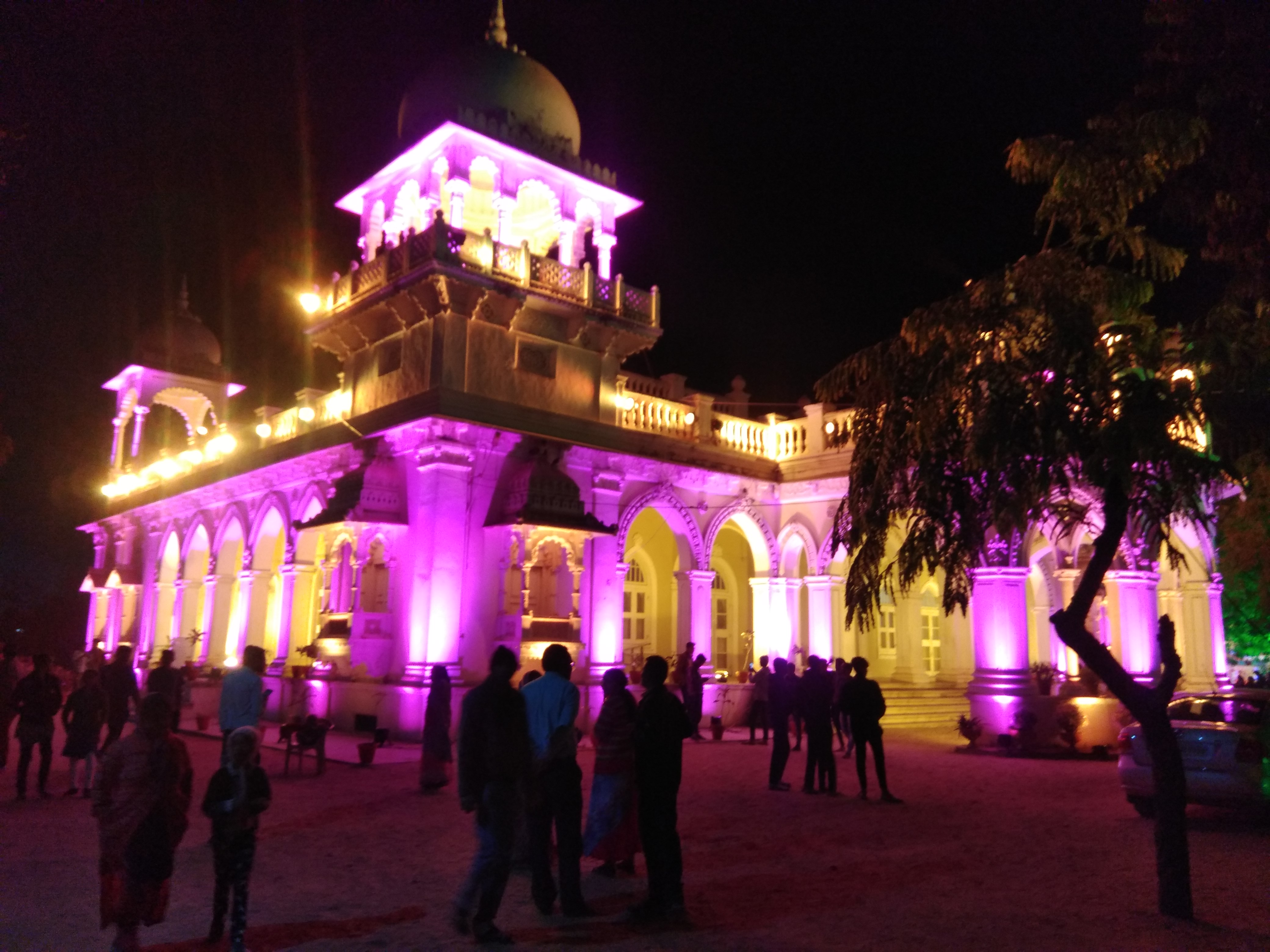 King George 5th Club Located at Nr. Vidyamandir.